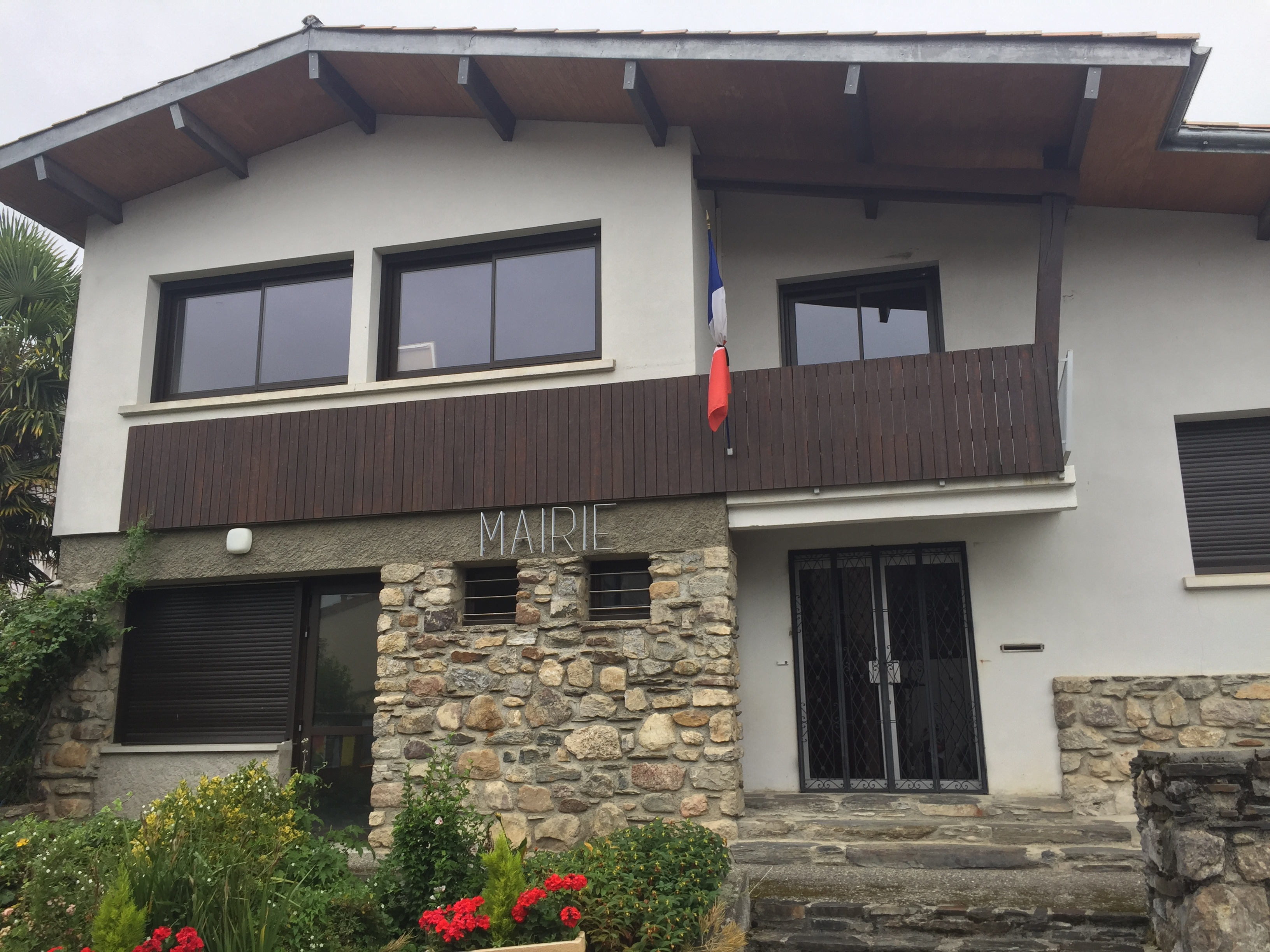 Picture of Lourde's Tawn Hall